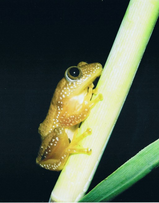 Afrixalus fornasini